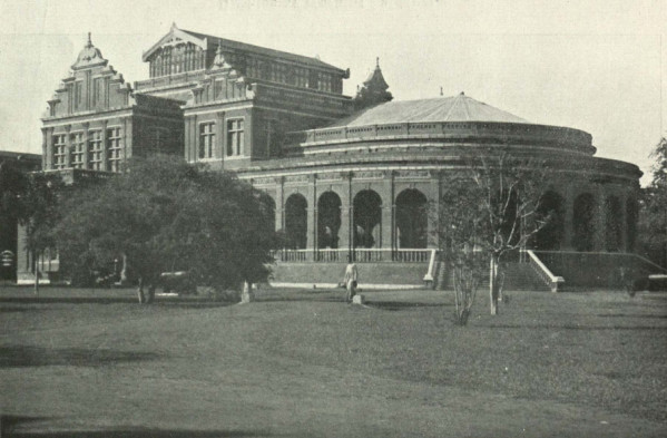 The Museum contains the Connemara Library. The rounded wing on the right is the Museum Theatre.